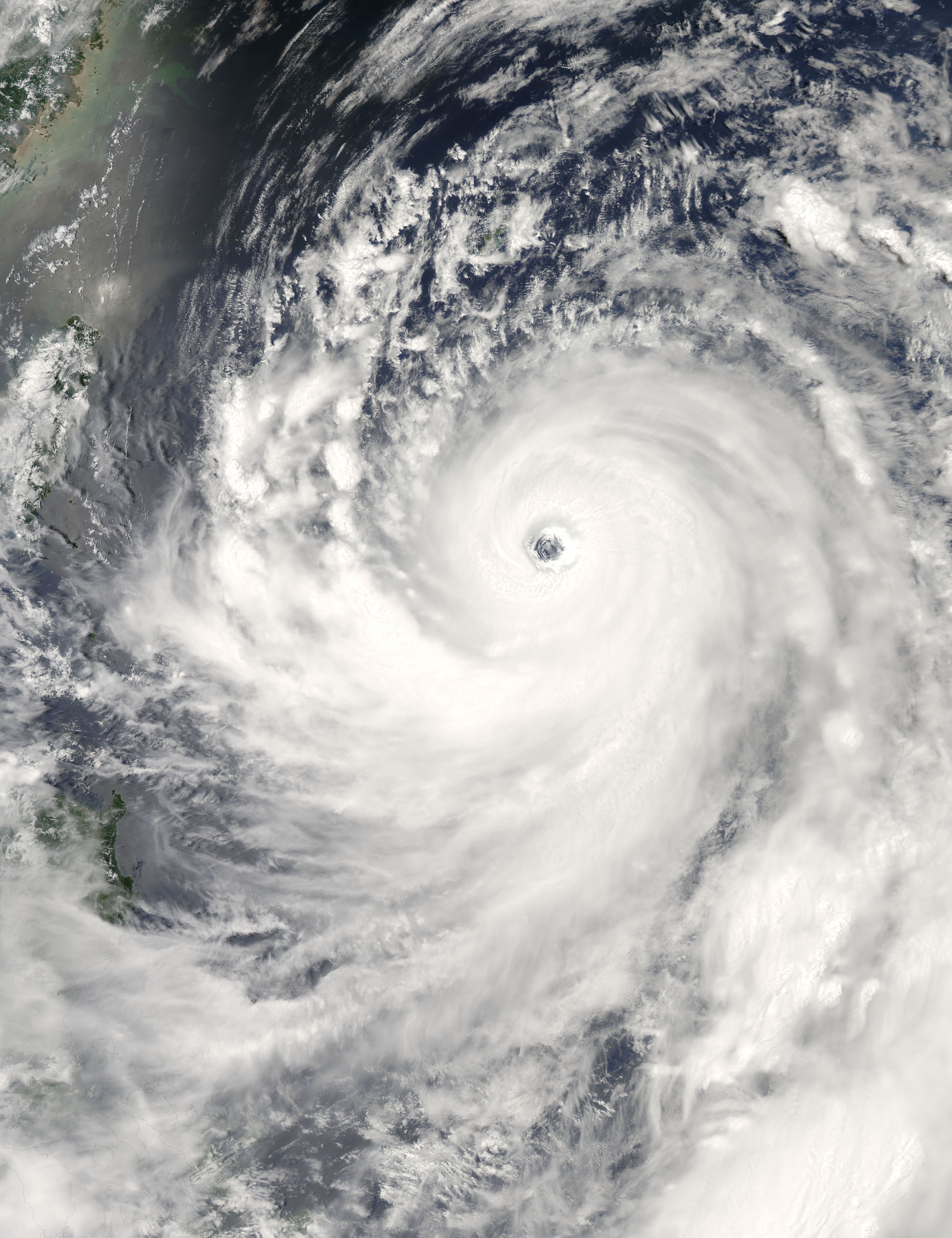 On July 12, 2007, Super Typhoon Man-Yi was a huge spiral of clouds, intense winds, and powerful thunderstorms as it arced northward over the western Pacific toward the southern end of the islands of Japan. Though far offshore, the Category 4 Super Typhoon was large enough that the outer bands of storm clouds were bringing wind and rain to Taiwan. Forecasts as of July 12 were calling for the storm to weaken as it traveled through the island chain and to reach Tokyo as a milder, but still powerful, typhoon on or around July 15. The Moderate Resolution Imaging Spectroradiometer (MODIS) on NASA’s Aqua satellite acquired this photo-like image at 2:05 p.m. local time (5:05 UTC). Very near the same time MODIS was observing the storm, the Joint Typhoon Warning Center estimated Man-Yi’s sustained winds to be over 240 kilometers per hour (145 miles per hour). The satellite image confirms that Man-Yi was a powerful Super Typhoon. The storm has the hallmark tightly wound arms that spiral around a well-defined, circular eye. The symmetrical spirals, clear eye, and intense storm clouds around the eyewall (innermost band of clouds) are all features regularly seen in satellite images of other particularly powerful typhoons. The high-resolution image provided above is at MODIS’ full spatial resolution (level of detail) of 250 meters per pixel. The MODIS Rapid Response System provides this image at additional resolutions.